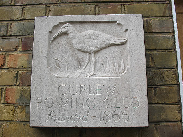 Curlew Rowing Club - emblem. The rowers whose base is in this building on Crane Street presumably use the nearby slipway 1164187.